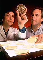 Microbiologists looking at bacteria